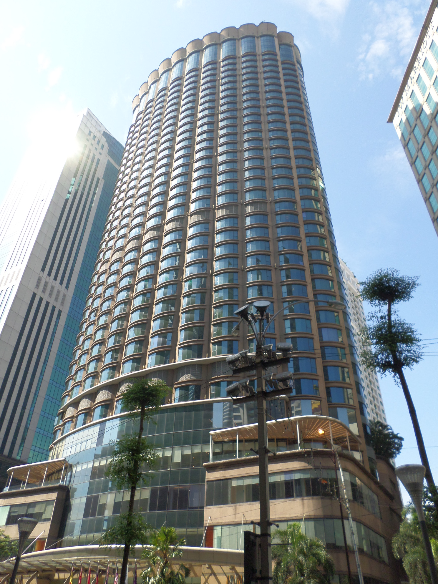 The Westin Kuala Lumpur Hotel, Bukit Bintang, Kuala Lumpur, Malaysia